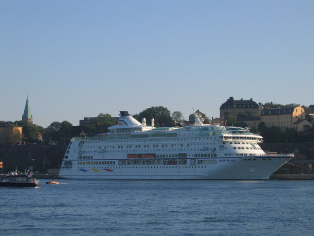 A Birka Line (Birka Paradise) cruise ship in Stockholm, Sweden